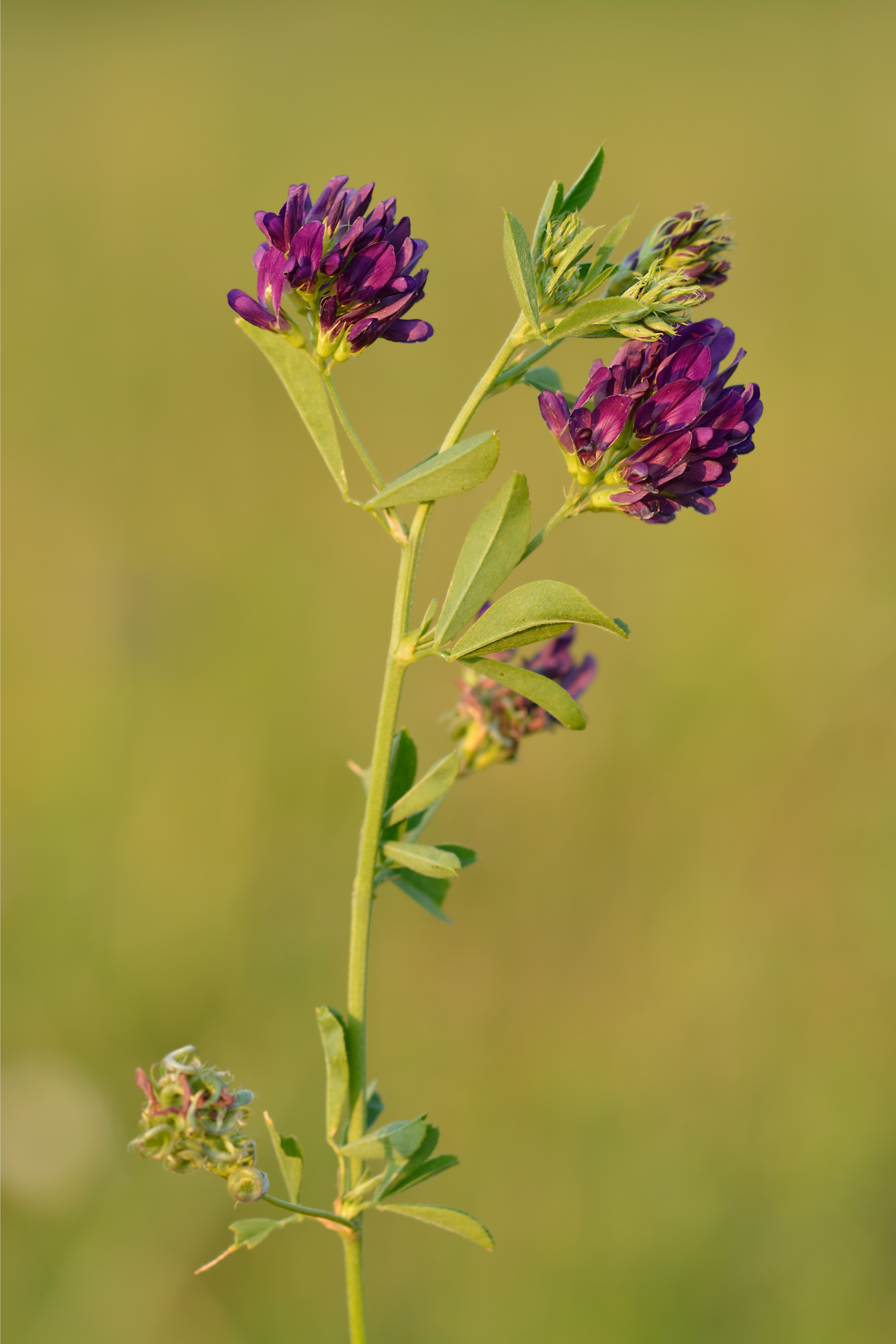 Medicago sativa - lucerne in Keila, Estonia.